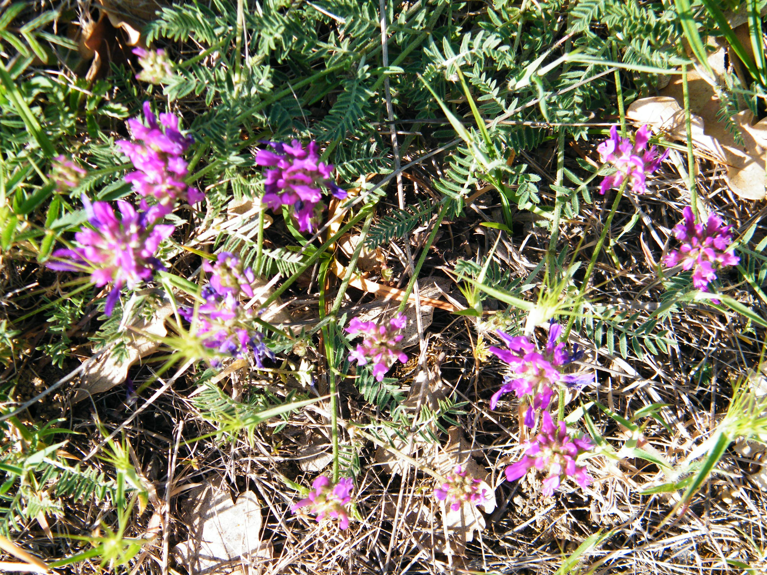 Astragalus onobrychis in Laspi Bay